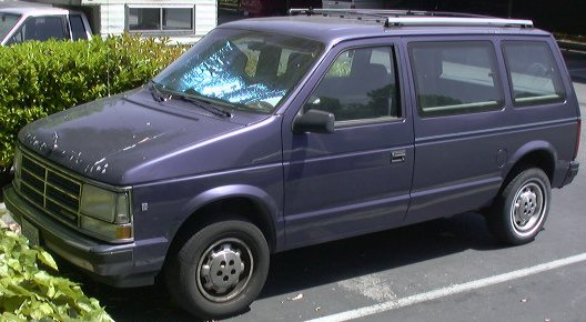 I took this picture May 13, 2004--only modification is cropping. I'd enjoy hearing about it if anyone else chooses to use it. Niteowlneils 03:28, 21 May 2004 (UTC) nl:Afbeelding:Dodge Caravan.jpg